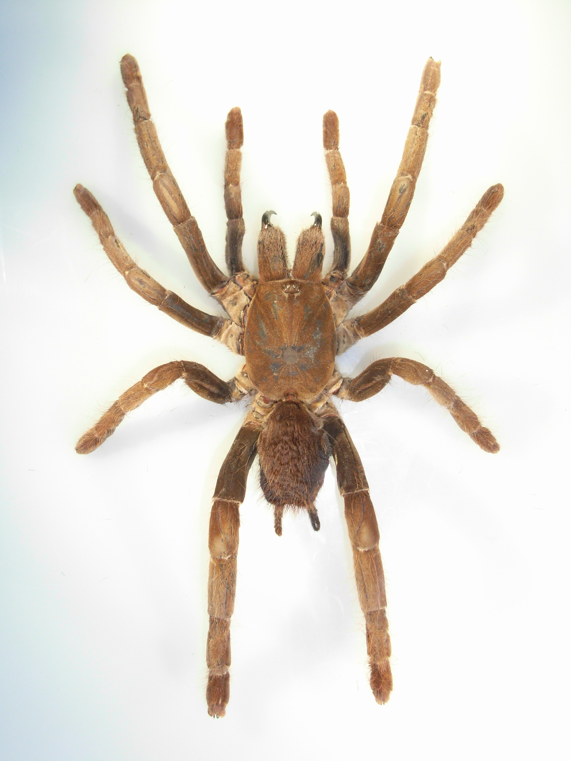 Hysterocrates hercules Female Ex coll. Felix Stumpe